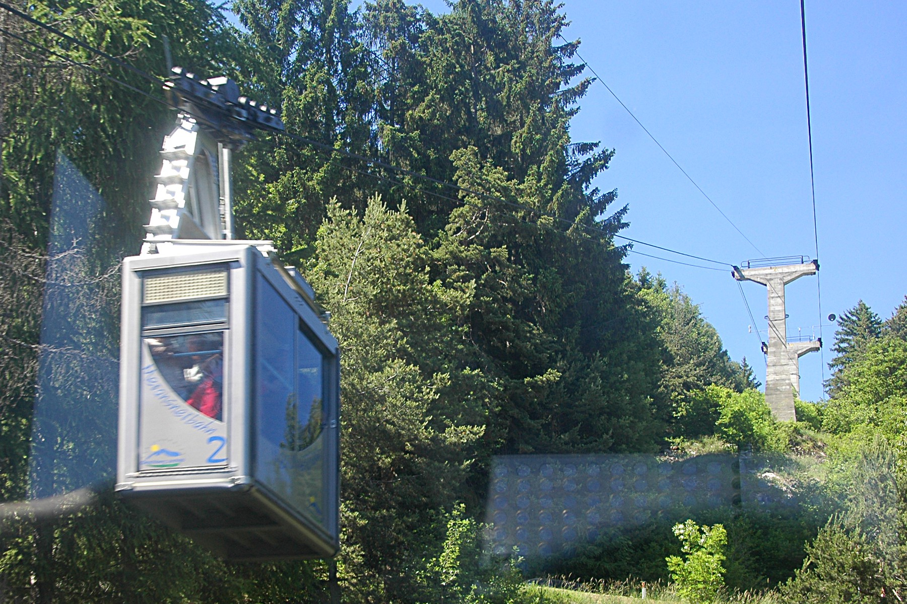 Meransnerbahn: Aerial cableway Mühlbach-Meransen (South Tyrol)